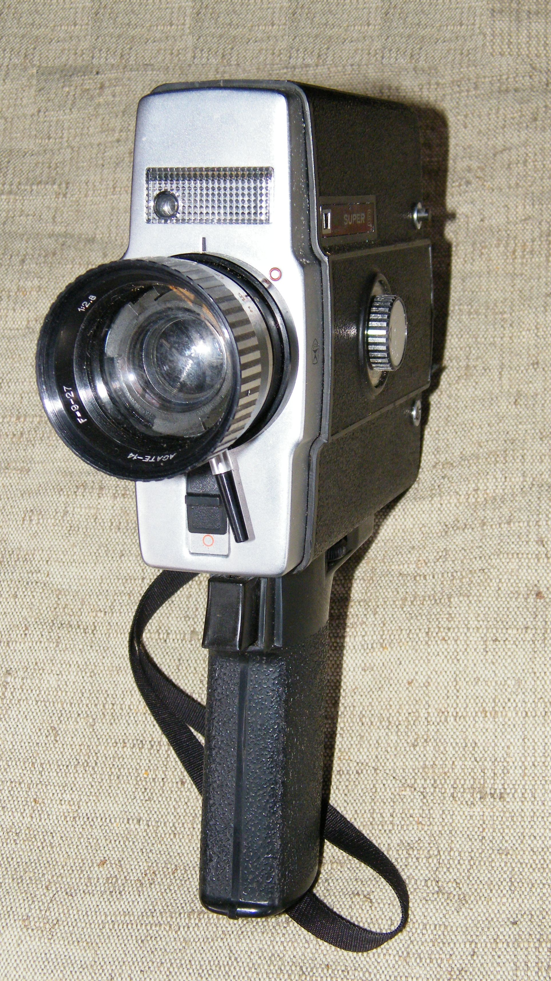 Аврора-215 кинокамера